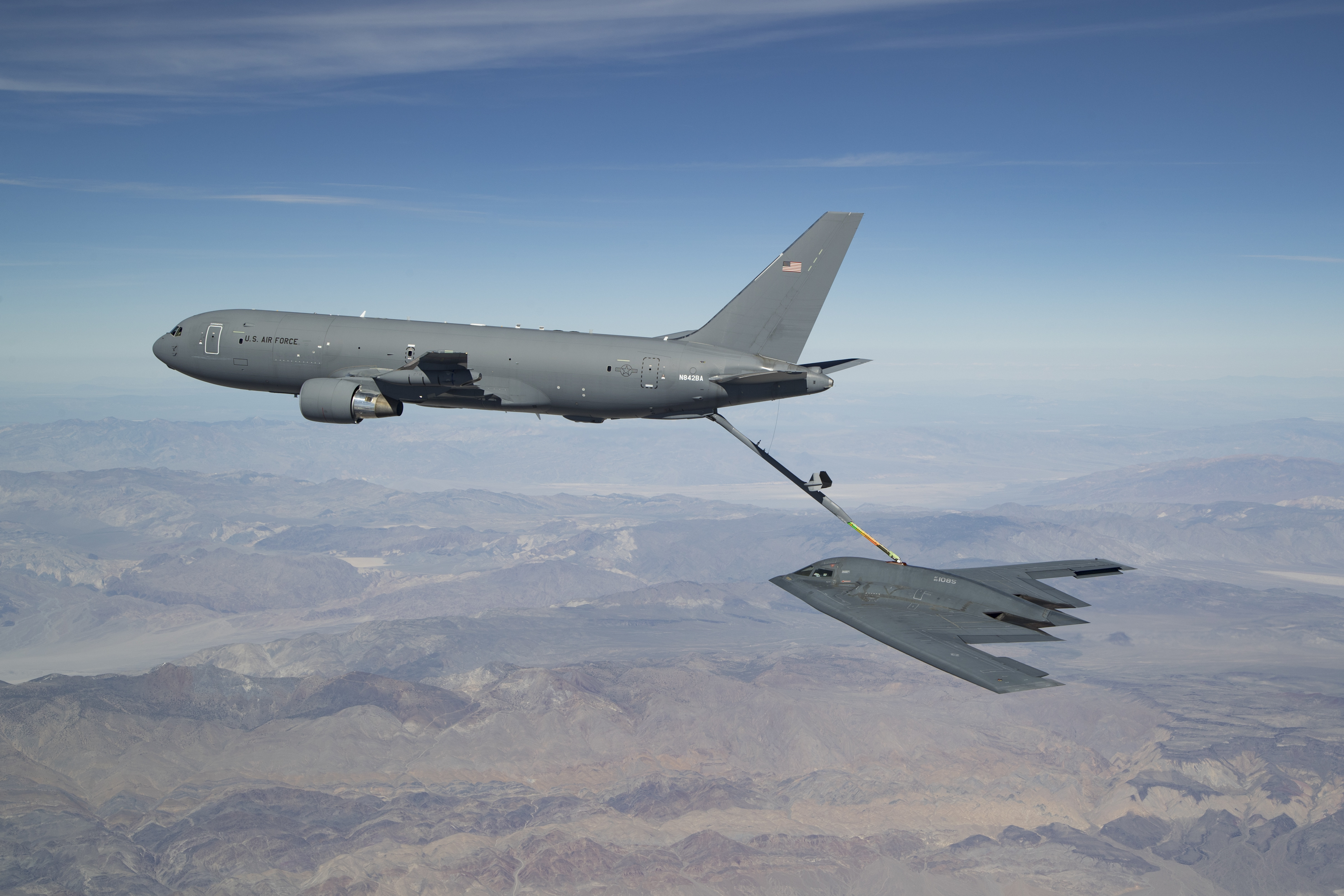 EDWARDS AIR FORCE BASE, Calif. --KC-46 refuels the B-2 for the first time during developmental flight test over Edwards AFB and the Sierra Nevada Mountains on Apr. 23, 2019. (U.S. Air Force photo by Christian Turner)